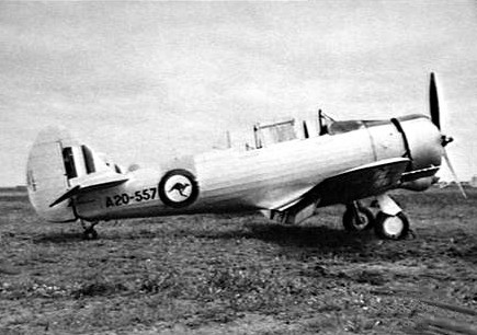 Laverton, Vic. C.A.C. Wirraway trainer aircraft, A20-557, at the RAAF Station.